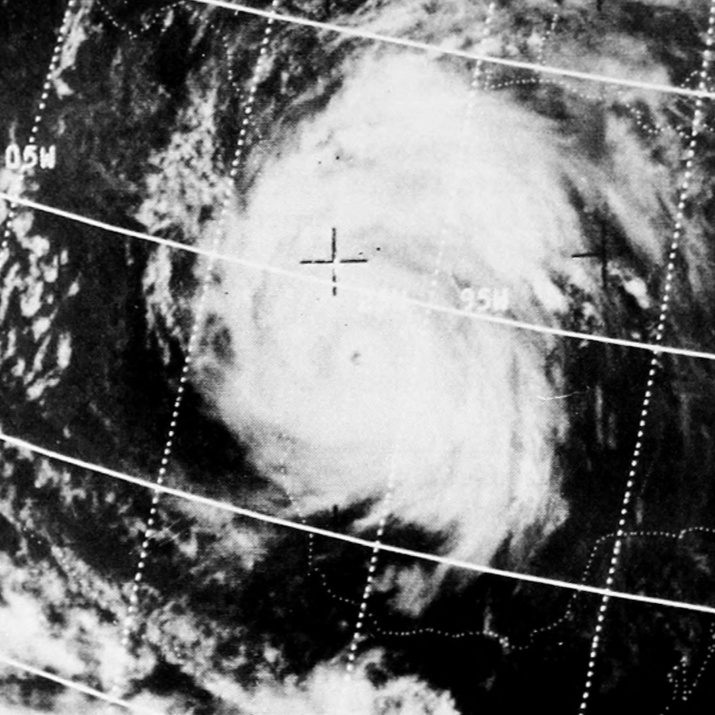 Satellite photo of Hurricane Beulah (1963) in the Gulf of Mexico. This is a NOAA image and all NOAA files are in the public domain.